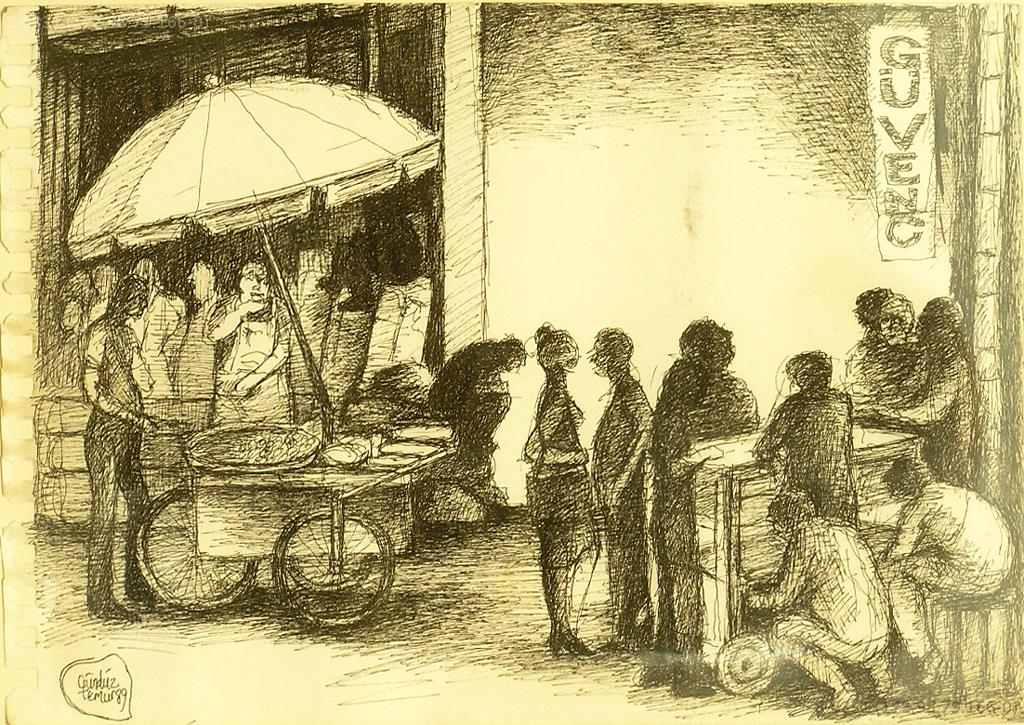 Aka Gündüz Temur drawing